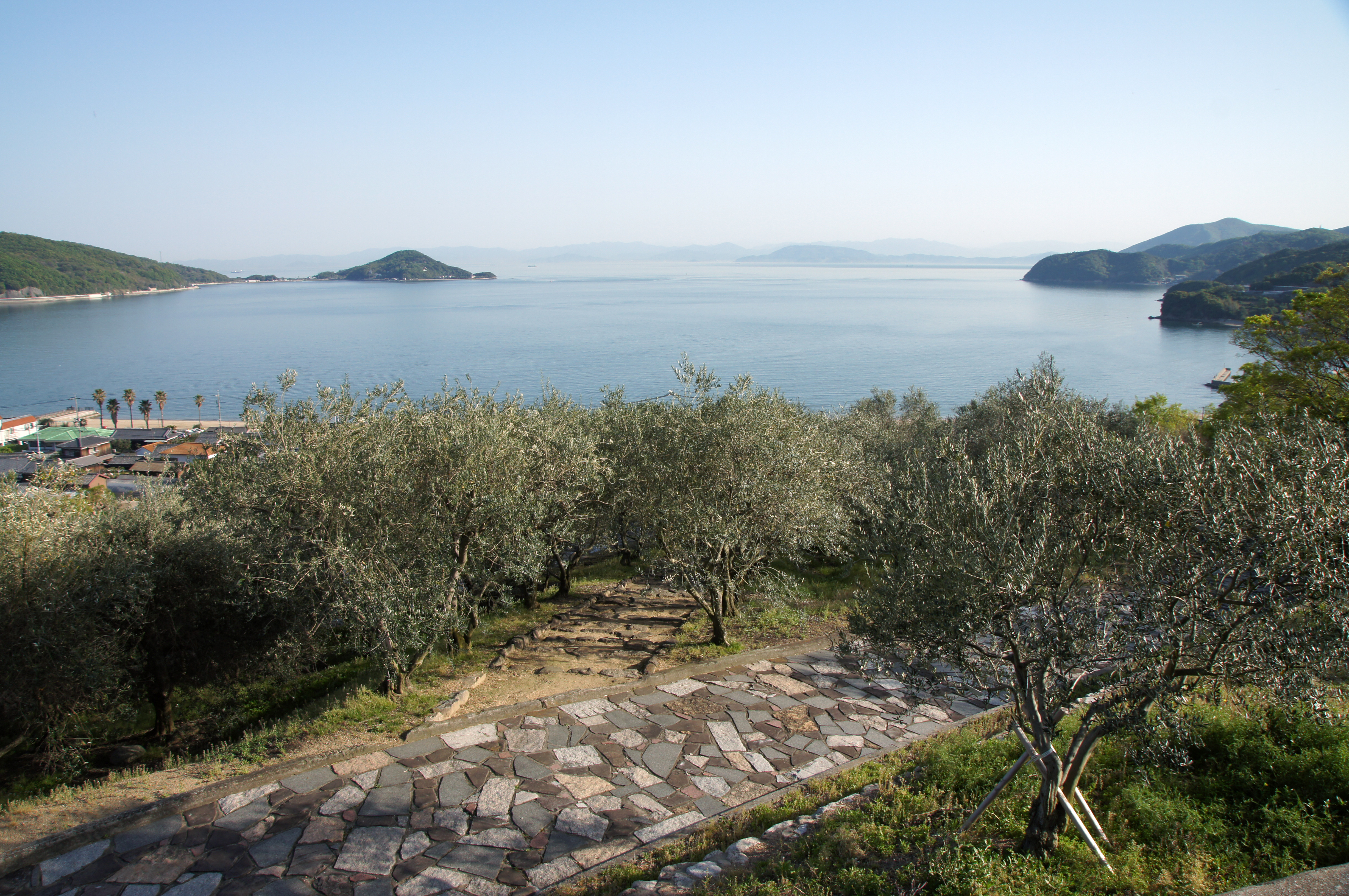 Shodoshima Olive Park of Shōdo Island, Shodoshima, Kagawa prefecture, Japan